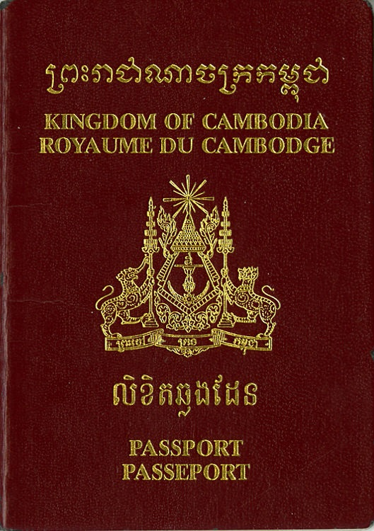 Cambodian passport